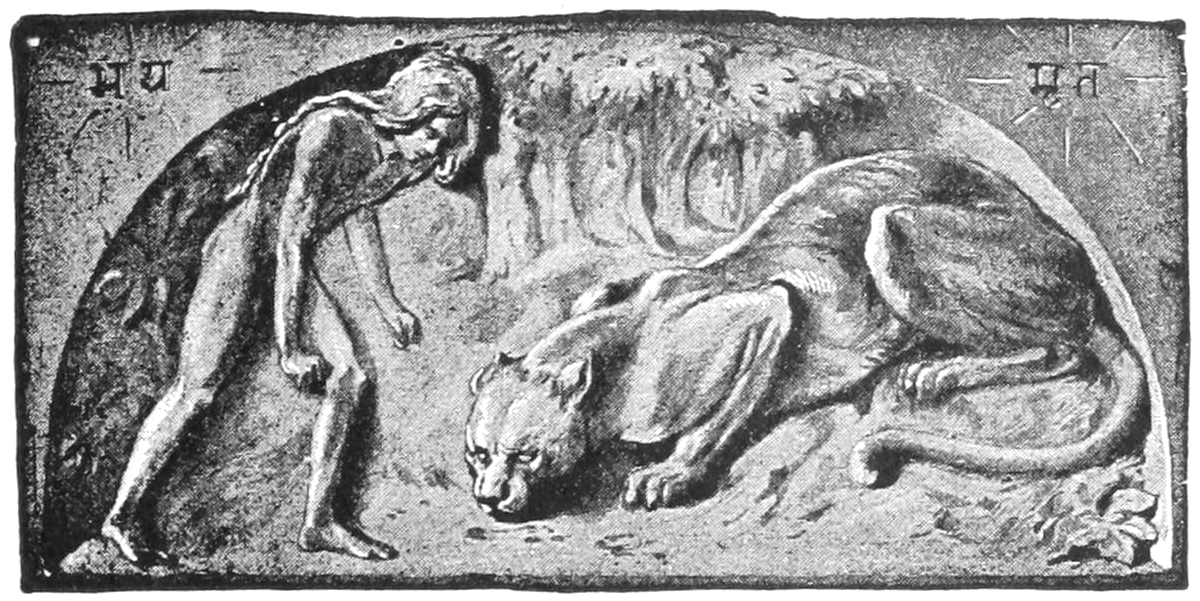 Title illustration of the chapter "The King's Ankhus".